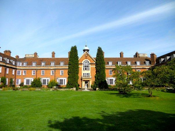 St Hugh's College, Oxford